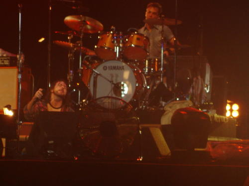 Matt Cameron, Pearl Jam's drummer. Live at Pacaembu Stadium - Sao Paulo, Brazil